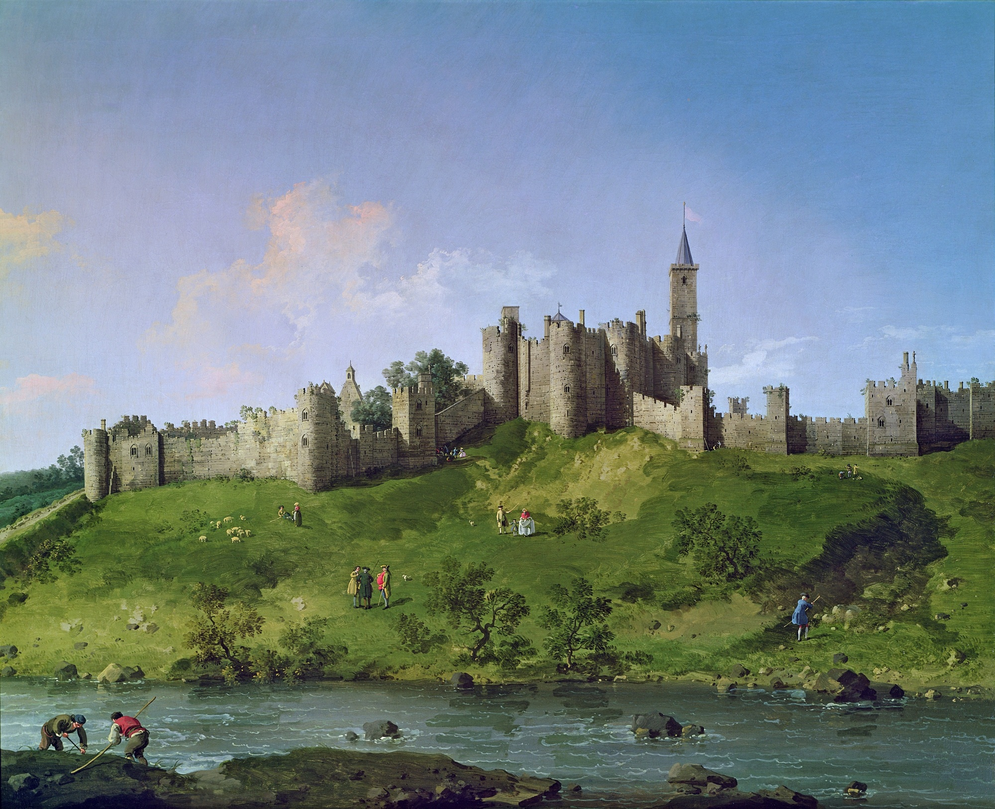 An 18th-century painting of Alnwick Castle by Canaletto.